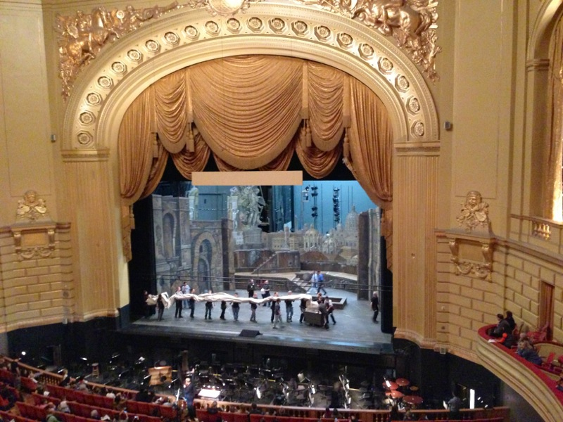 Setting up the stage for Puccini's Tosca at the San Francisco Opera.